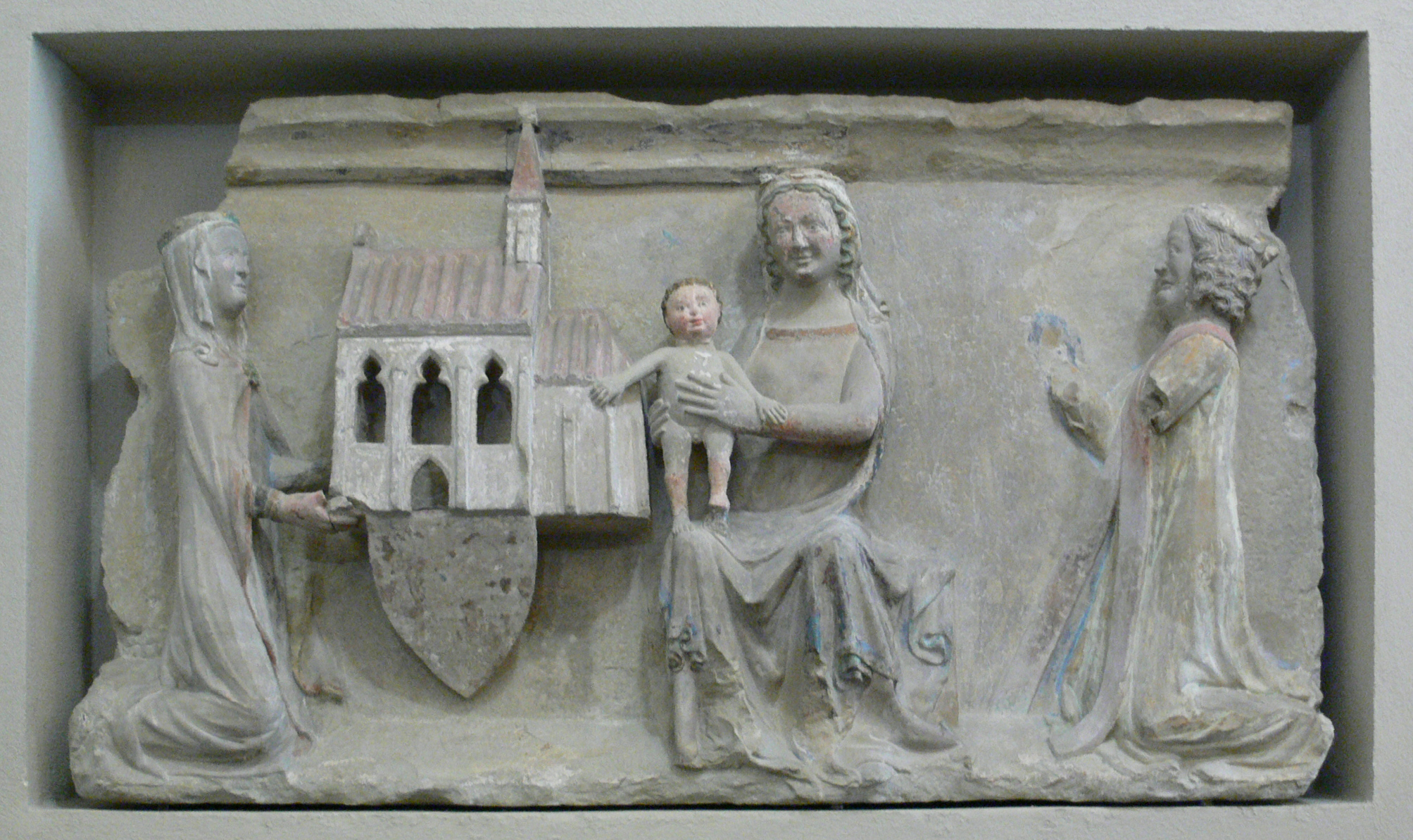 Relief of Benefactors, from the demolished St Laurence Chapel of the Munich Castle (today's „Alter Hof“) Bayerisches Nationalmuseum München